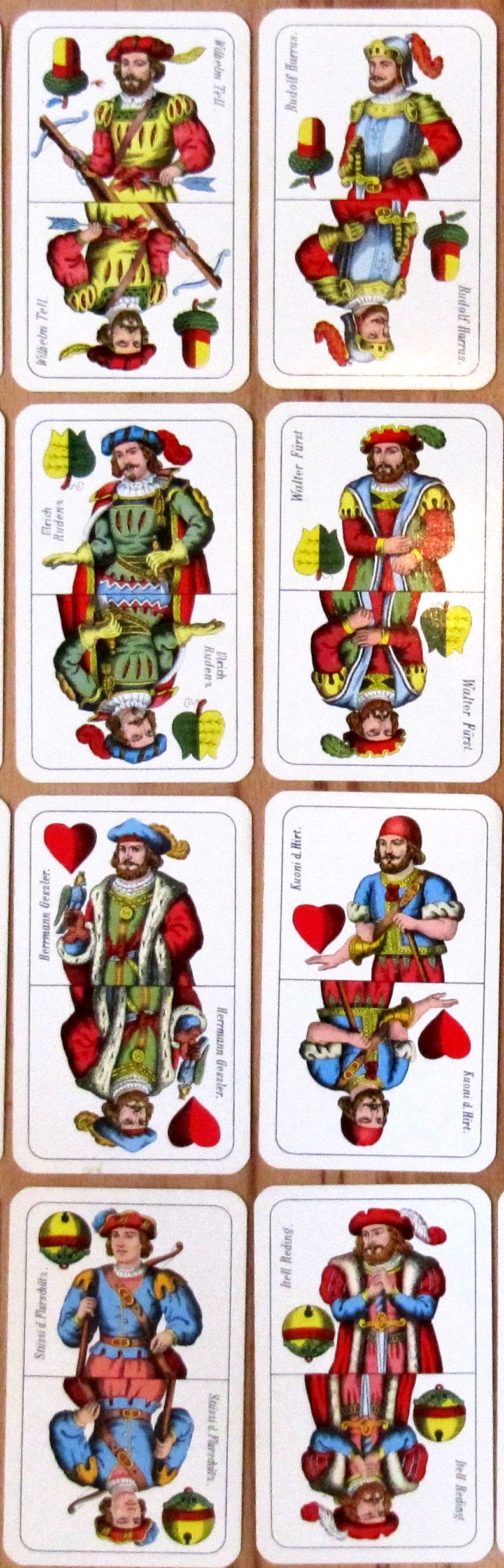 This photograph shows a deck of German playing cards with pictures from the legend of Wilhelm Tell. The deck is labeled “Doppeldeutsche Preference” and has 36 cards.